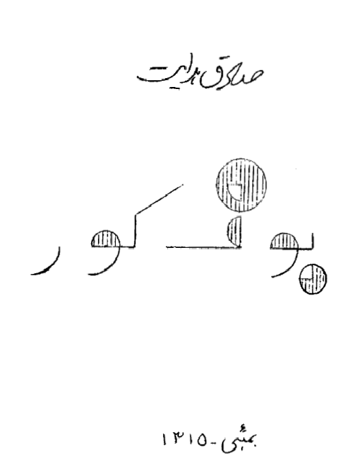 Cover of The Blind Owl, designed by Sadegh Hedayat